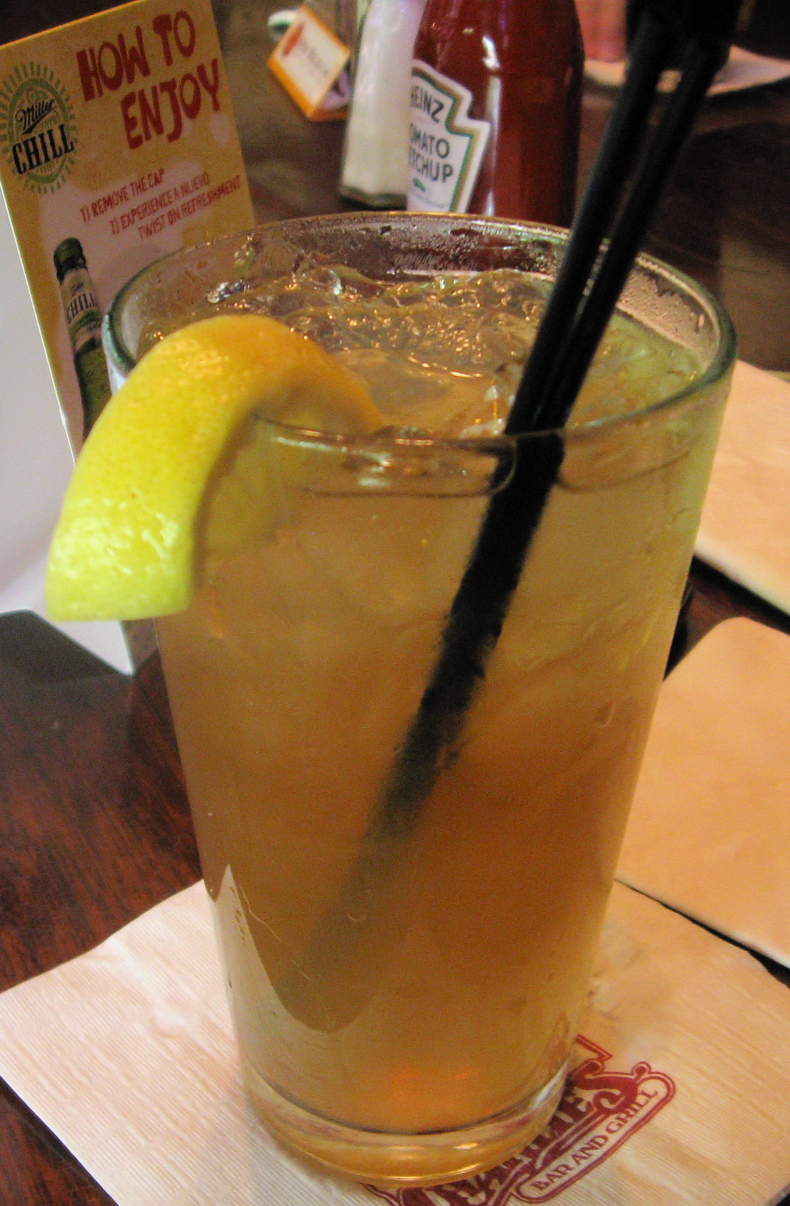 A Long Island Iced Tea in the traditional highball glass it should be served in.